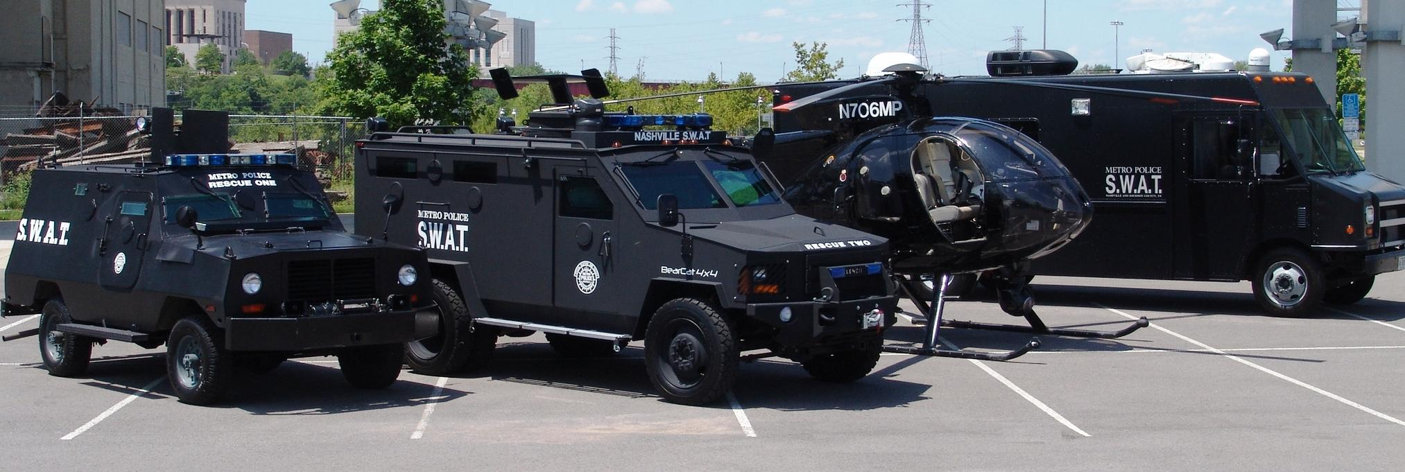 Photo taken by SD Lewis